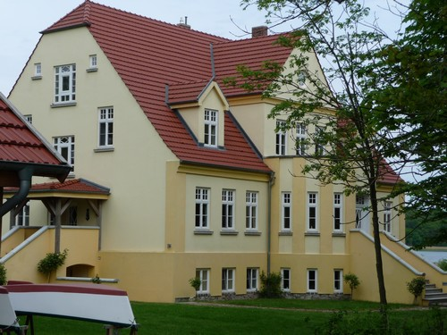 Gut Grubnow